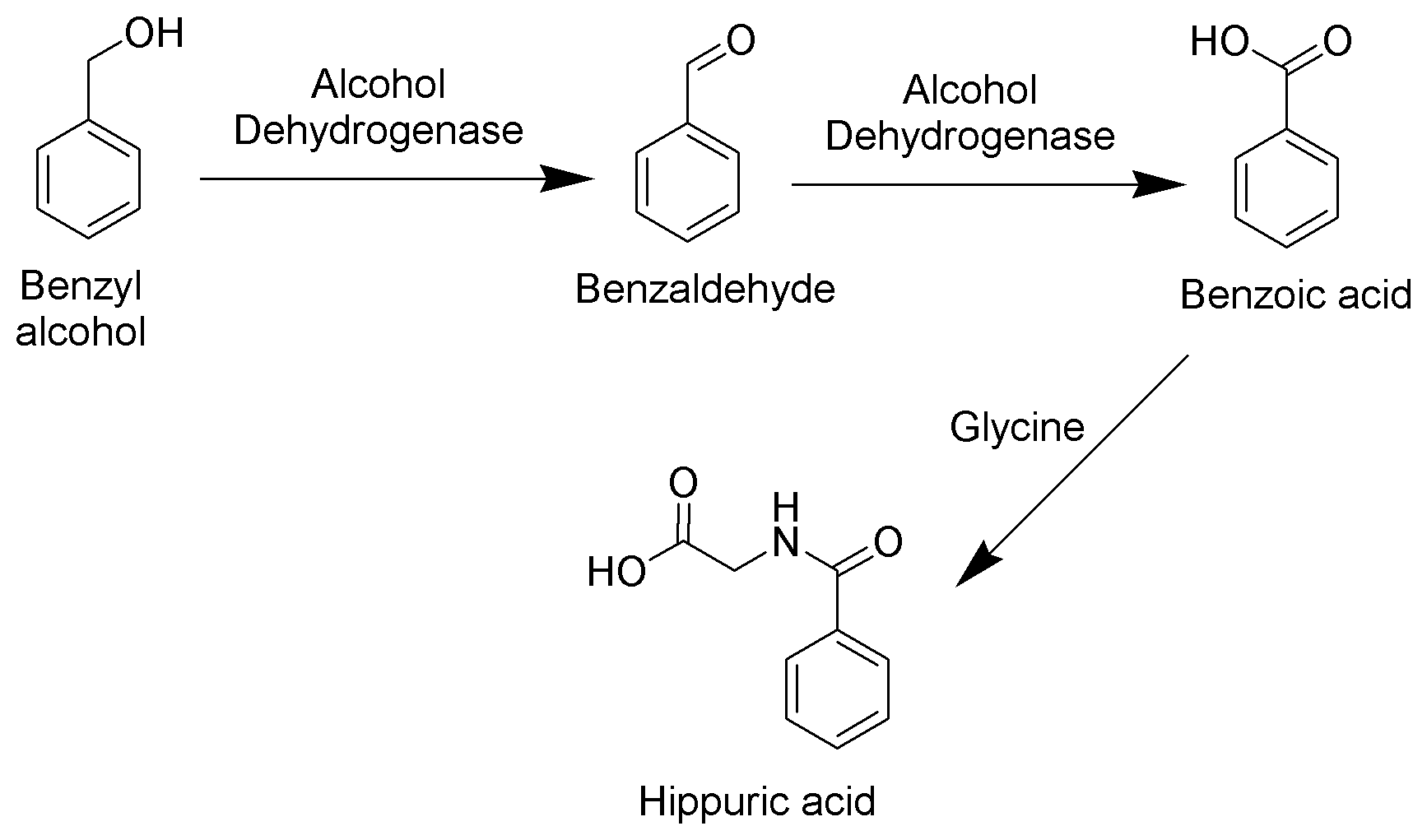 Description: Metabolism of benzyl alcohol. Author, date of creation: selfmade by ~K, 11 September 2005. Source: - Copyright: Public domain. (PD) Comments: high-resolution b/w PNG; ChemDraw / The GIMP.